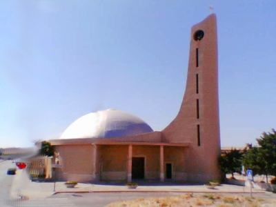 Church of S. Pius X - Sassari (Li Punti)